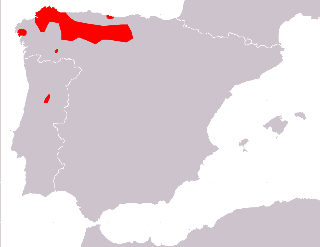 Iberolacerta monticola range map.